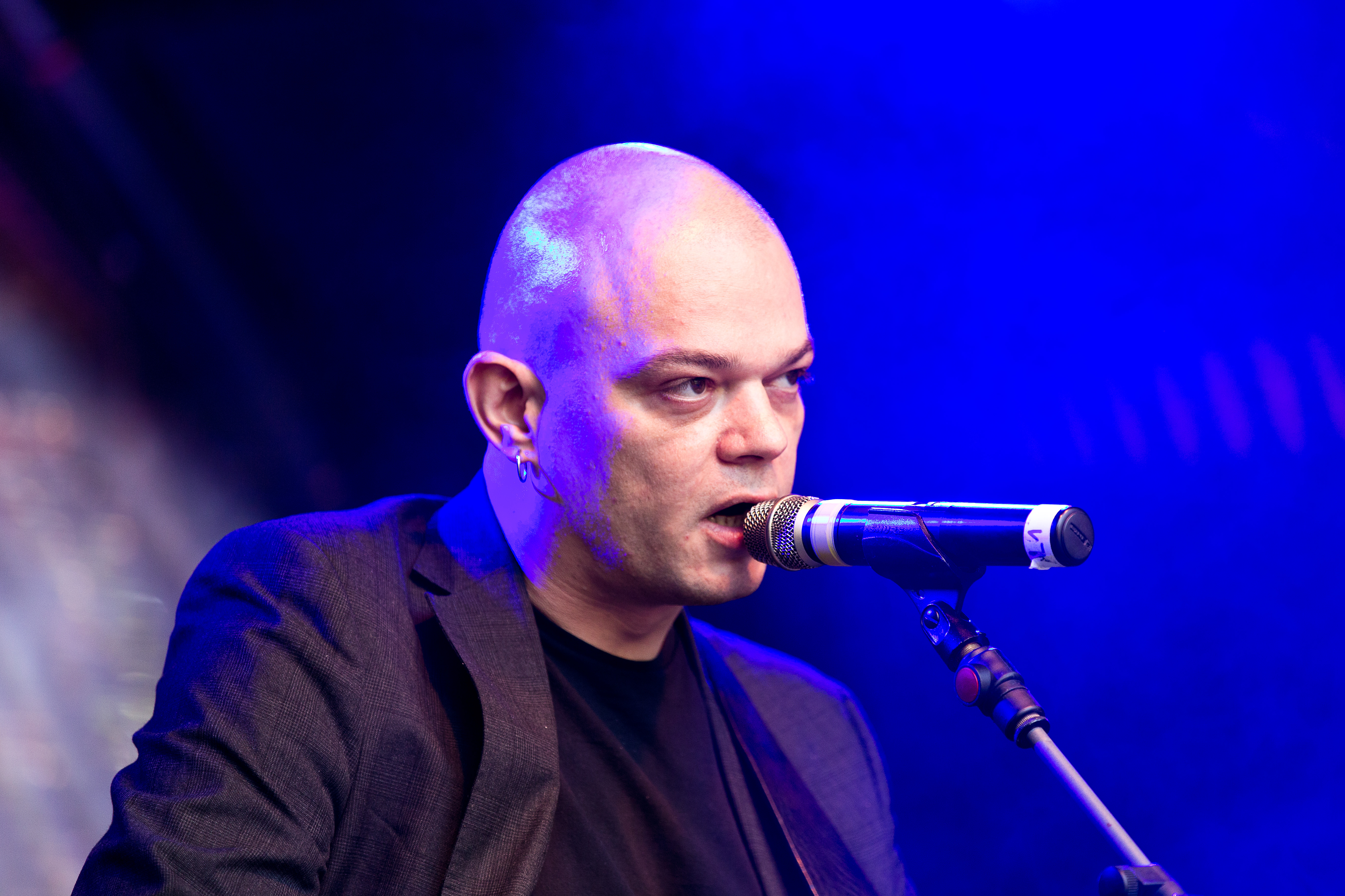 The British neofolk band Naevus at the Nocturnal Culture Night 10 2015 in Deutzen/Germany.